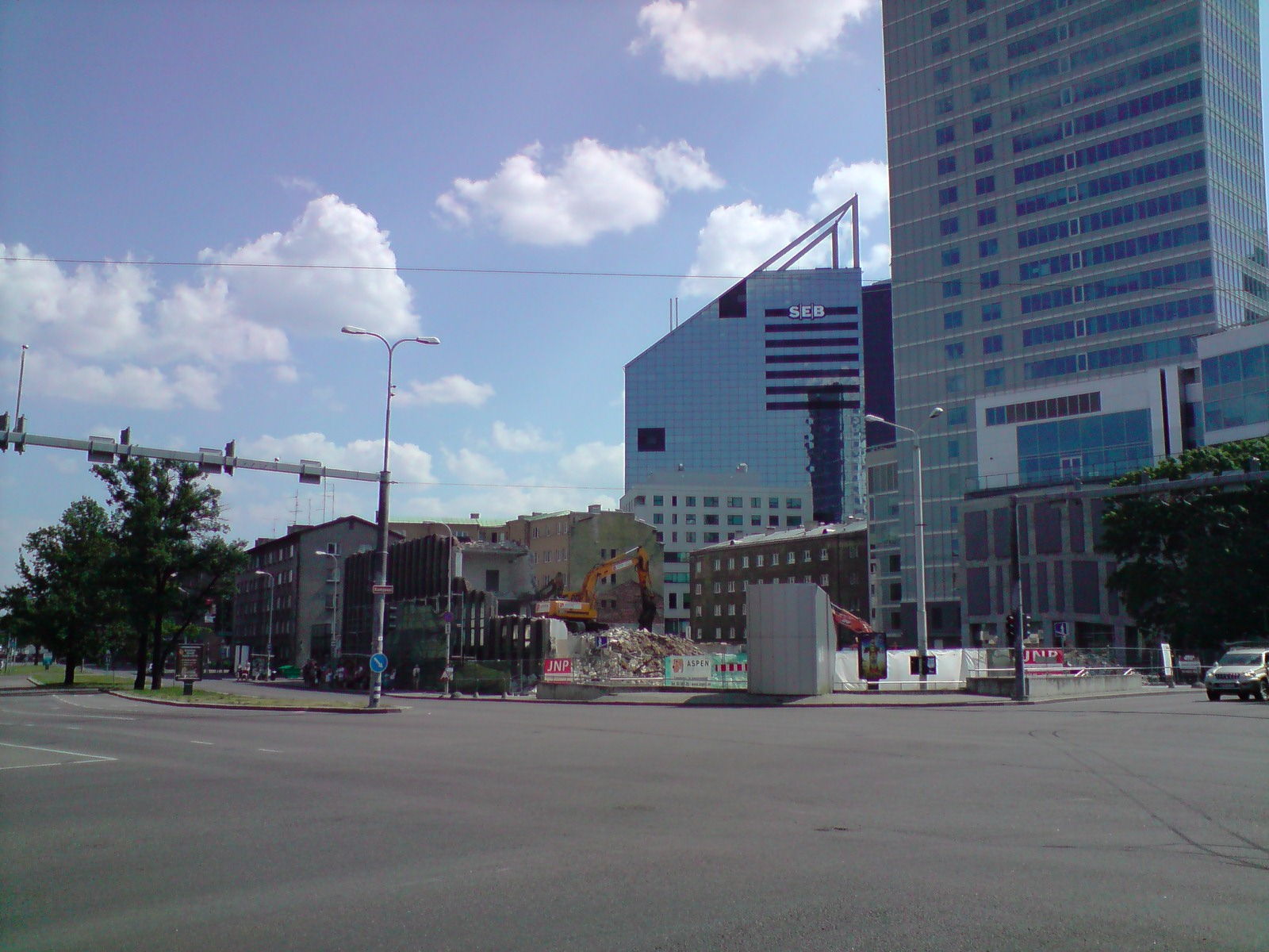 The demolition of the old building of Estonian Academy of Arts in Tallinn.